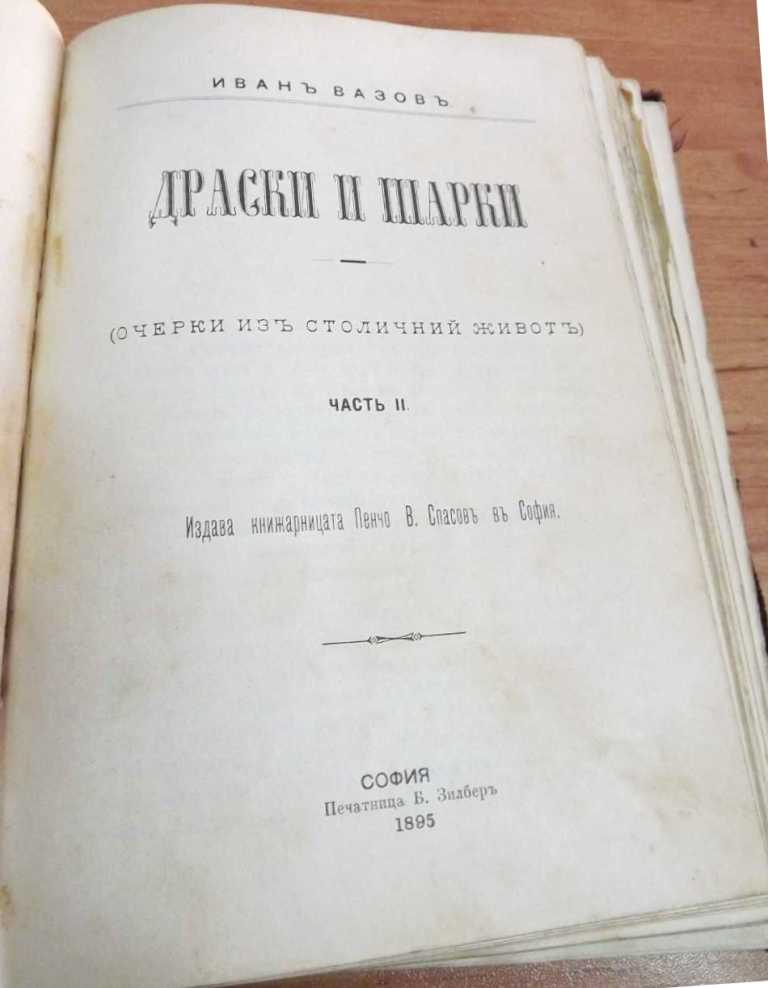 Home page "scratch pattern" (1895), Ivan Vazov